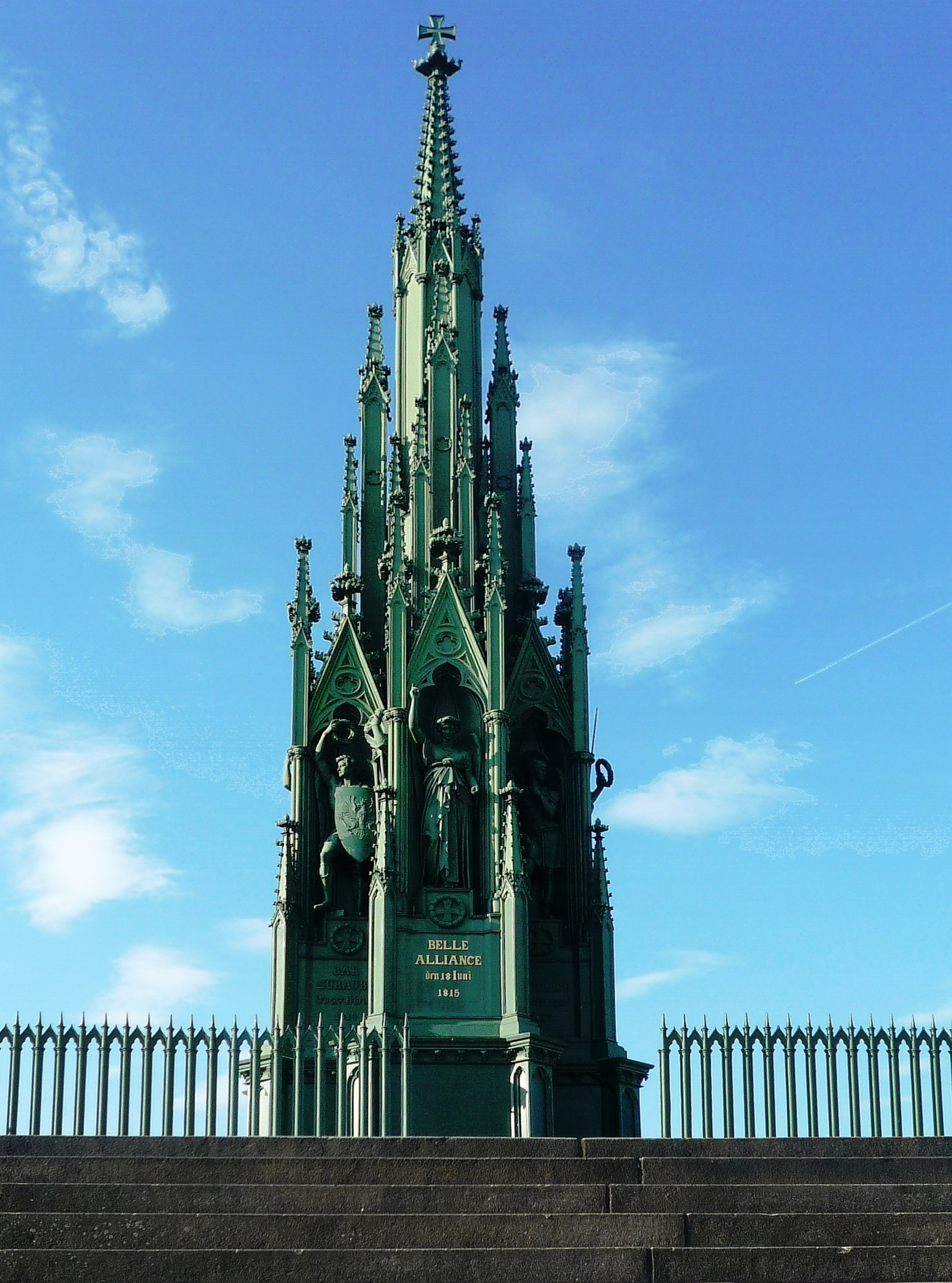 Viktoriapark in Berlin-Kreuzberg. National memorial for the war of liberation against Napoleon Bonaparte, ceremonially opened in 1821. Partial view.